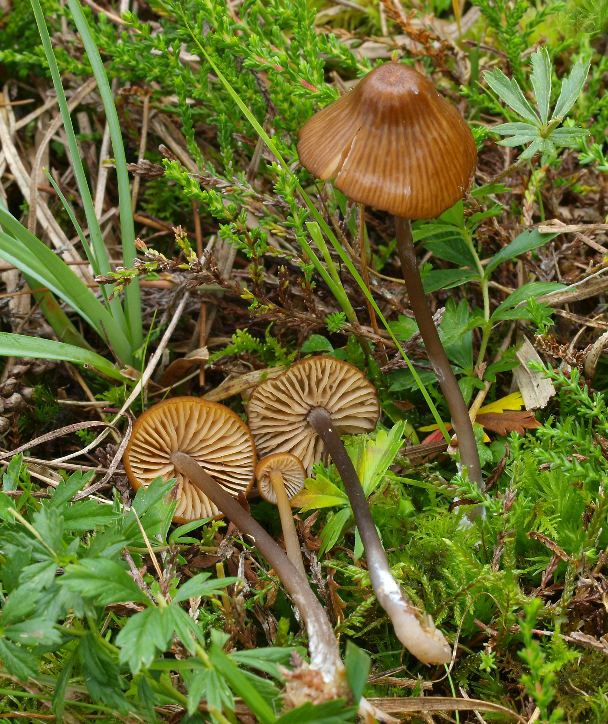 Entoloma longistriatum